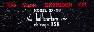 Close up of SX-28 logo (Thanks to KB8TAD)